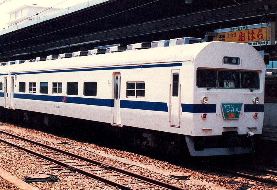 JR Kyushu 715 series EMU with KuHa 715-101 leading